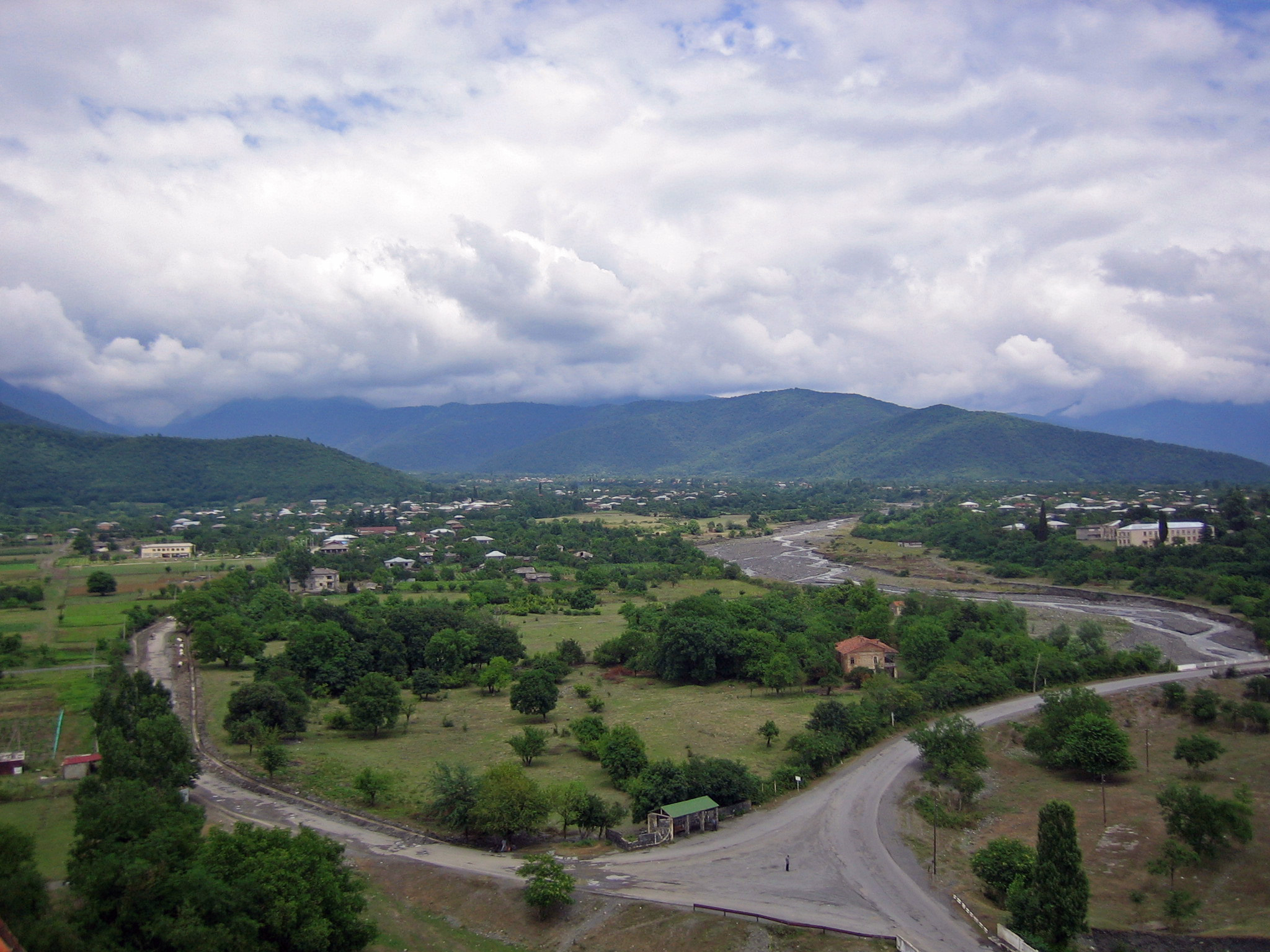 Gremi - Kakheti region. View from Gremi fortress.